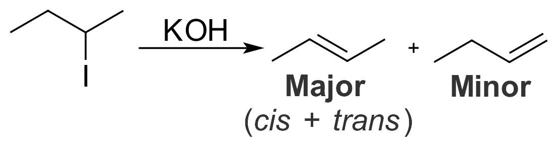 Zaitsev's rule states that in an elimination reaction, the most stable alkene - usually the most substituted one - the major product.